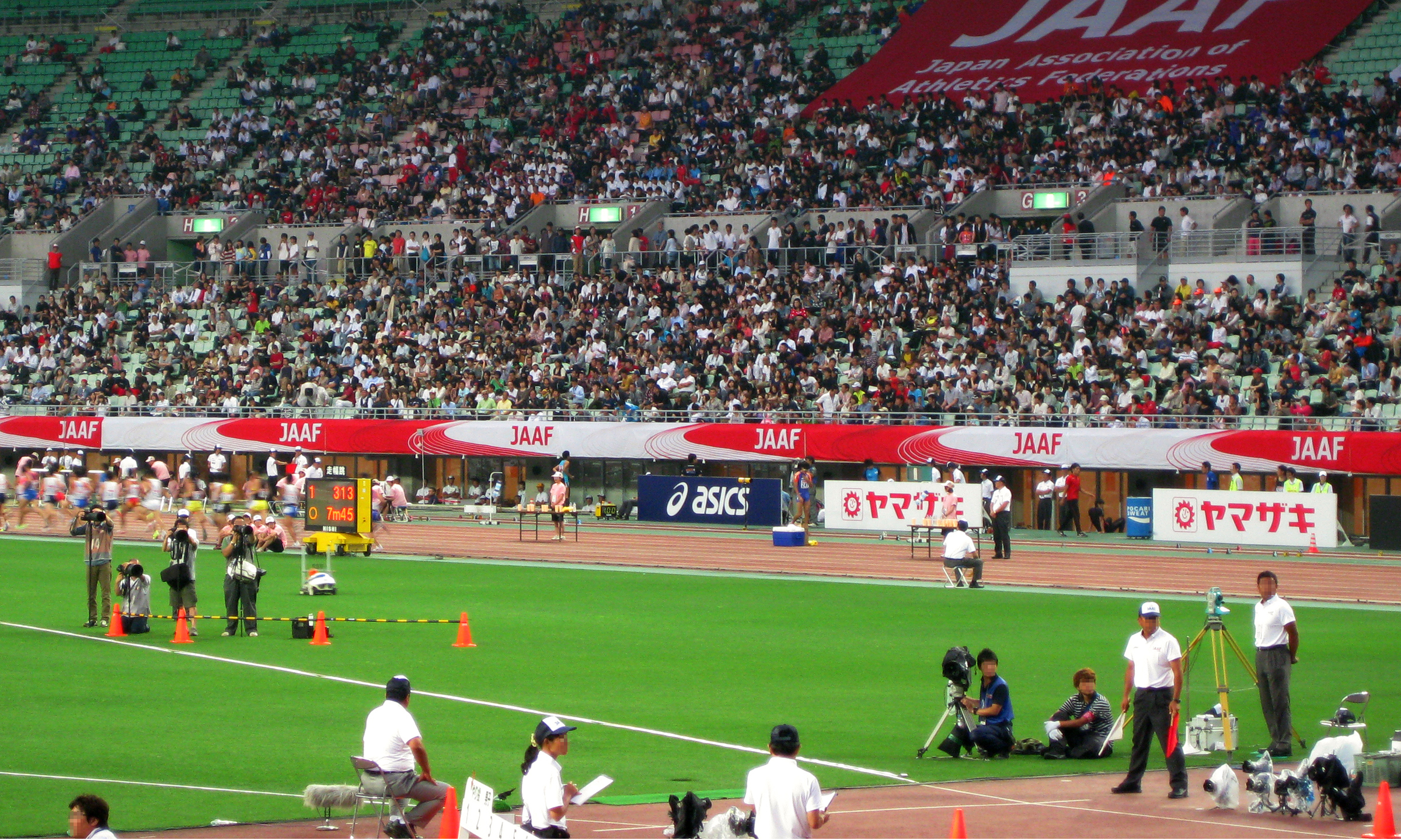 Crowds on stands watching the game. The men's javelin throw final and the men's long jump final and the men's 10,000 metres final at the 96th Japan Championships in Athletics - This photo was taken on 9 June, 2012 at Nagai Stadium, Osaka.